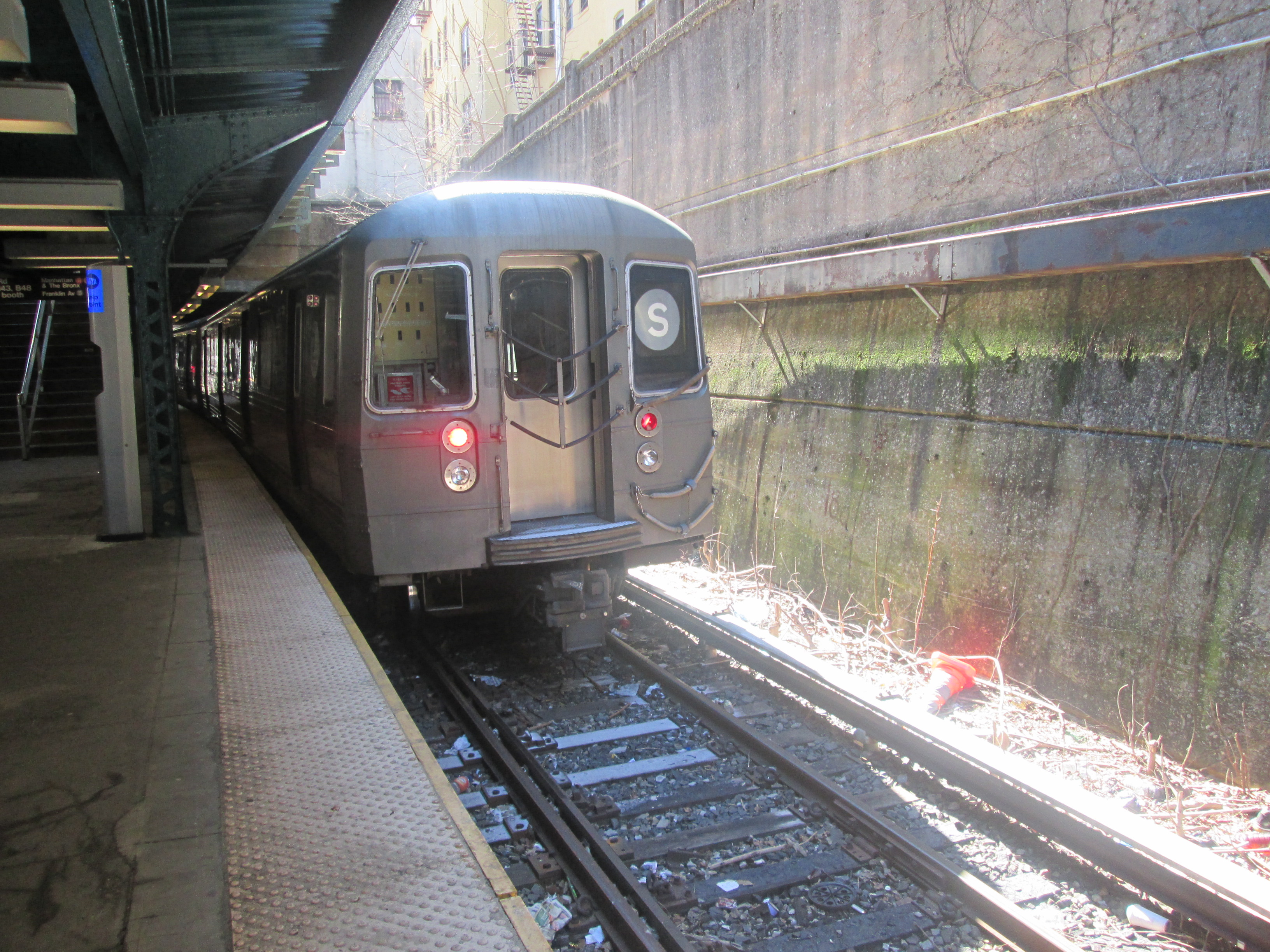 The Prospect Park subway station in Brooklyn, New York